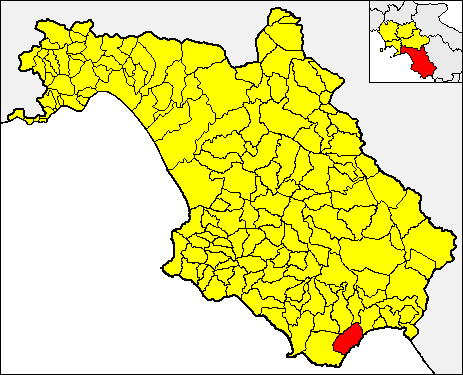 Locator map of the municipality of San Giovanni a Piro (red) within the Province of Salerno